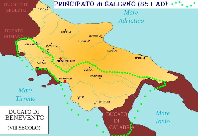 Map about the limits of the Salerno Principate in 851 AD (in green).Created using the commons . I have added data about Salerno Principate in 851 AD; taken from